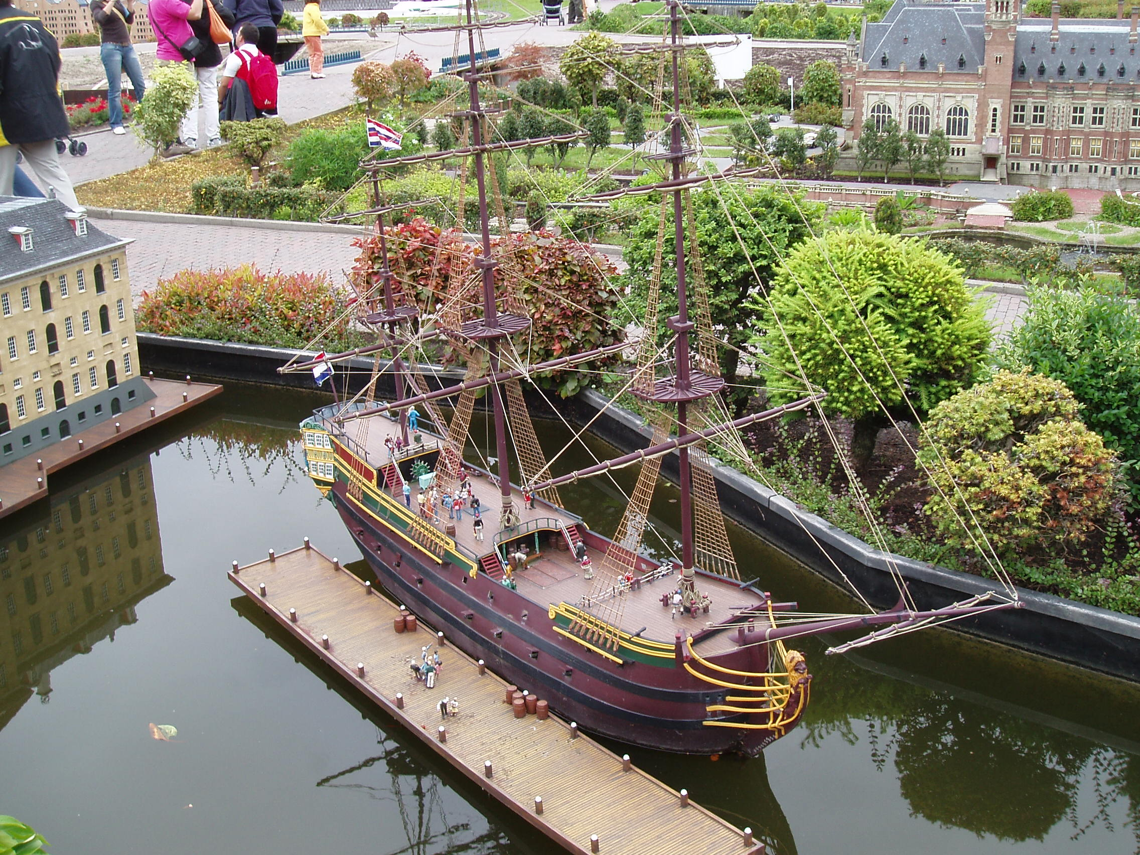 Madurodam in the Hague in the Netherlands; VOC-schip 'Amsterdam'